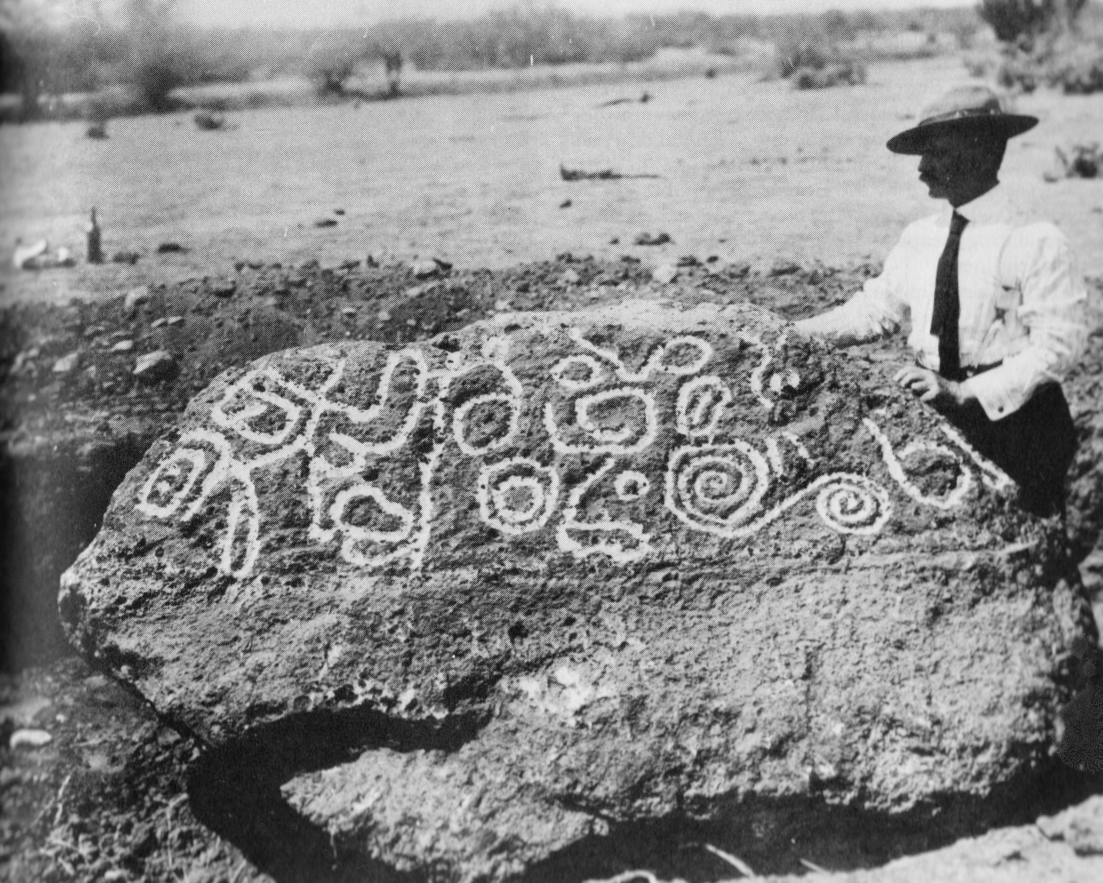 The Esperanza Stone. Major Frederick Russell Burnham standing next to the stone he found in Mexico (1910)